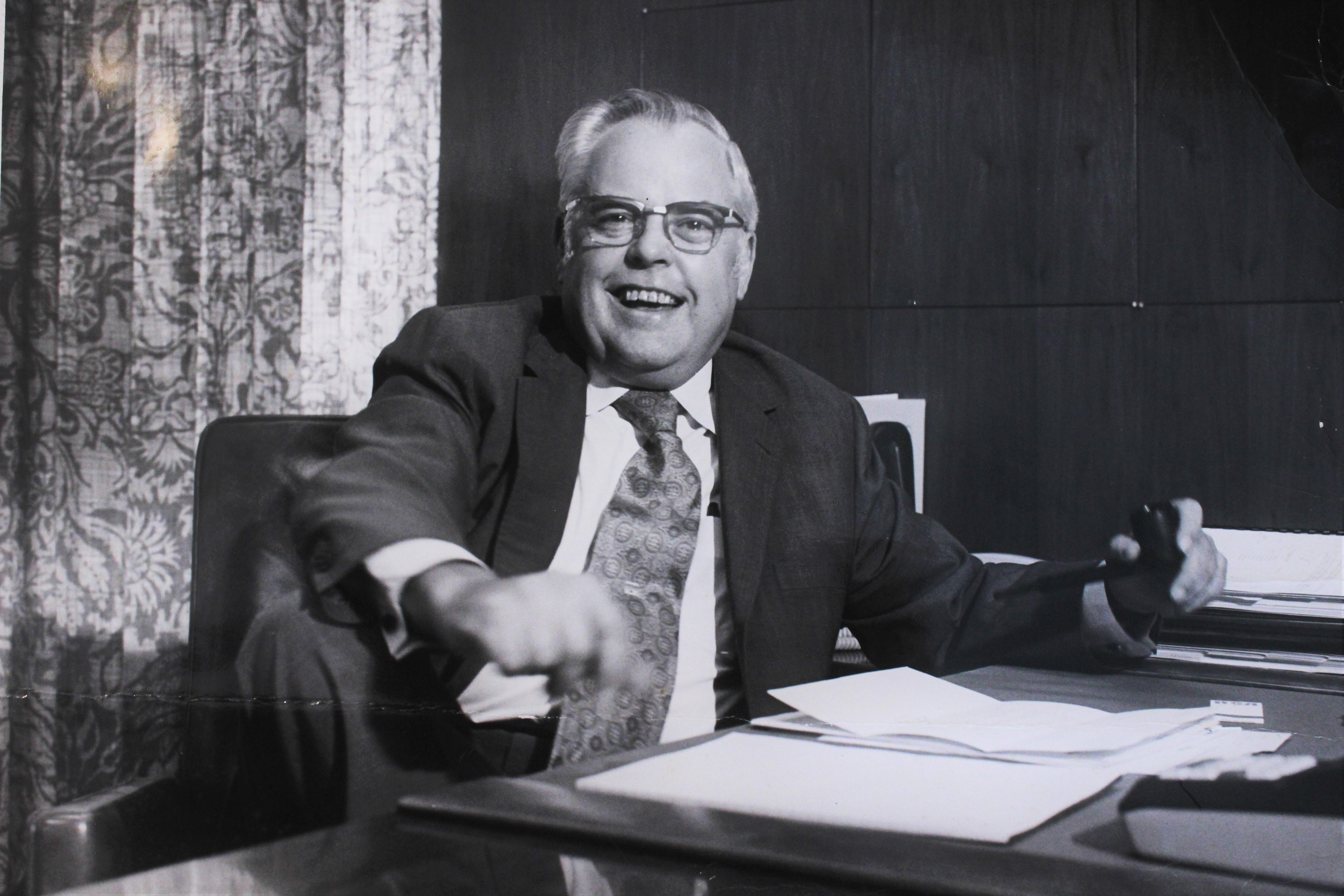 James Hillier in his mid 50s.